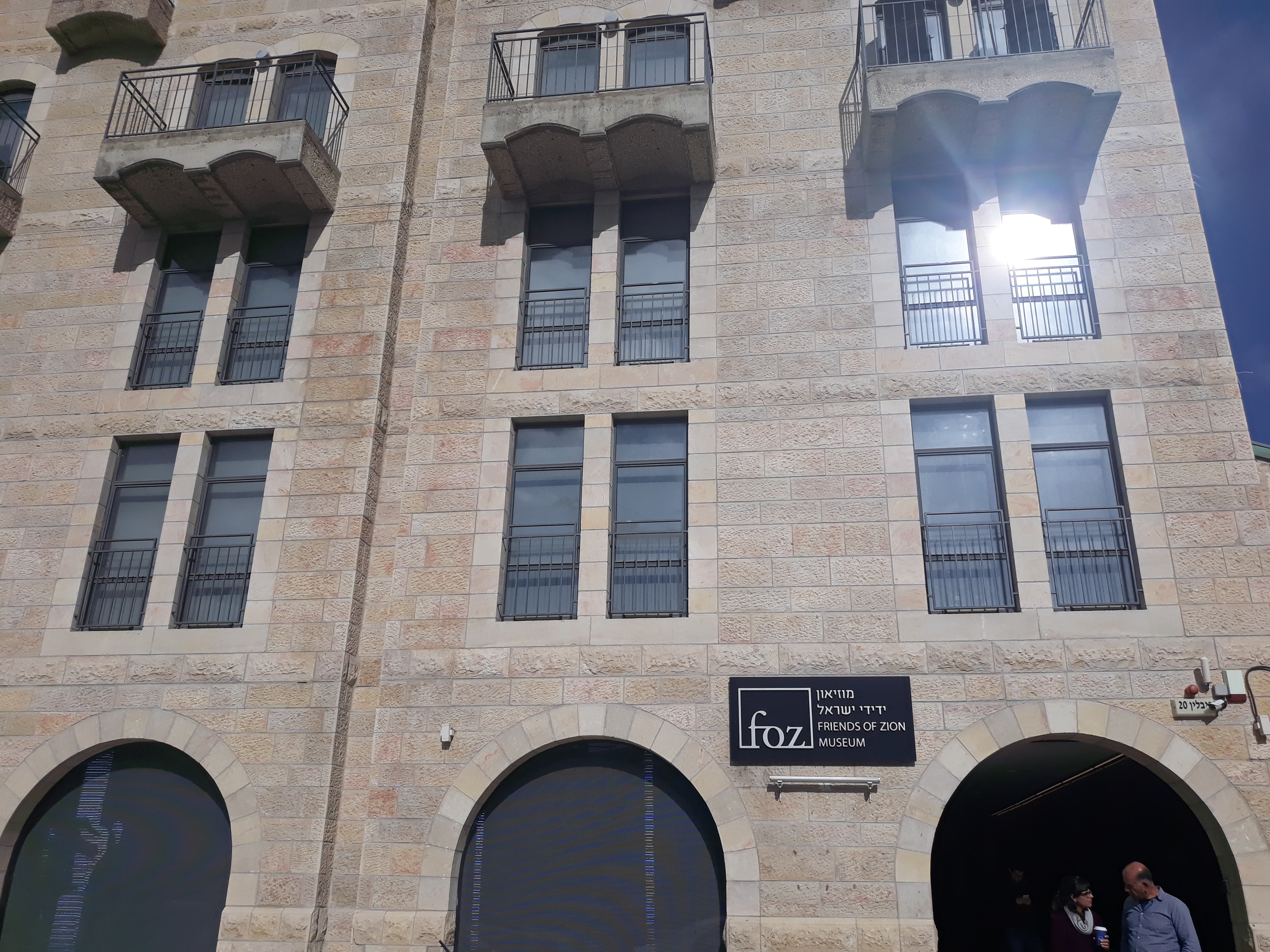 The entrance of the Friends of Zion Museum in Jerusalem.